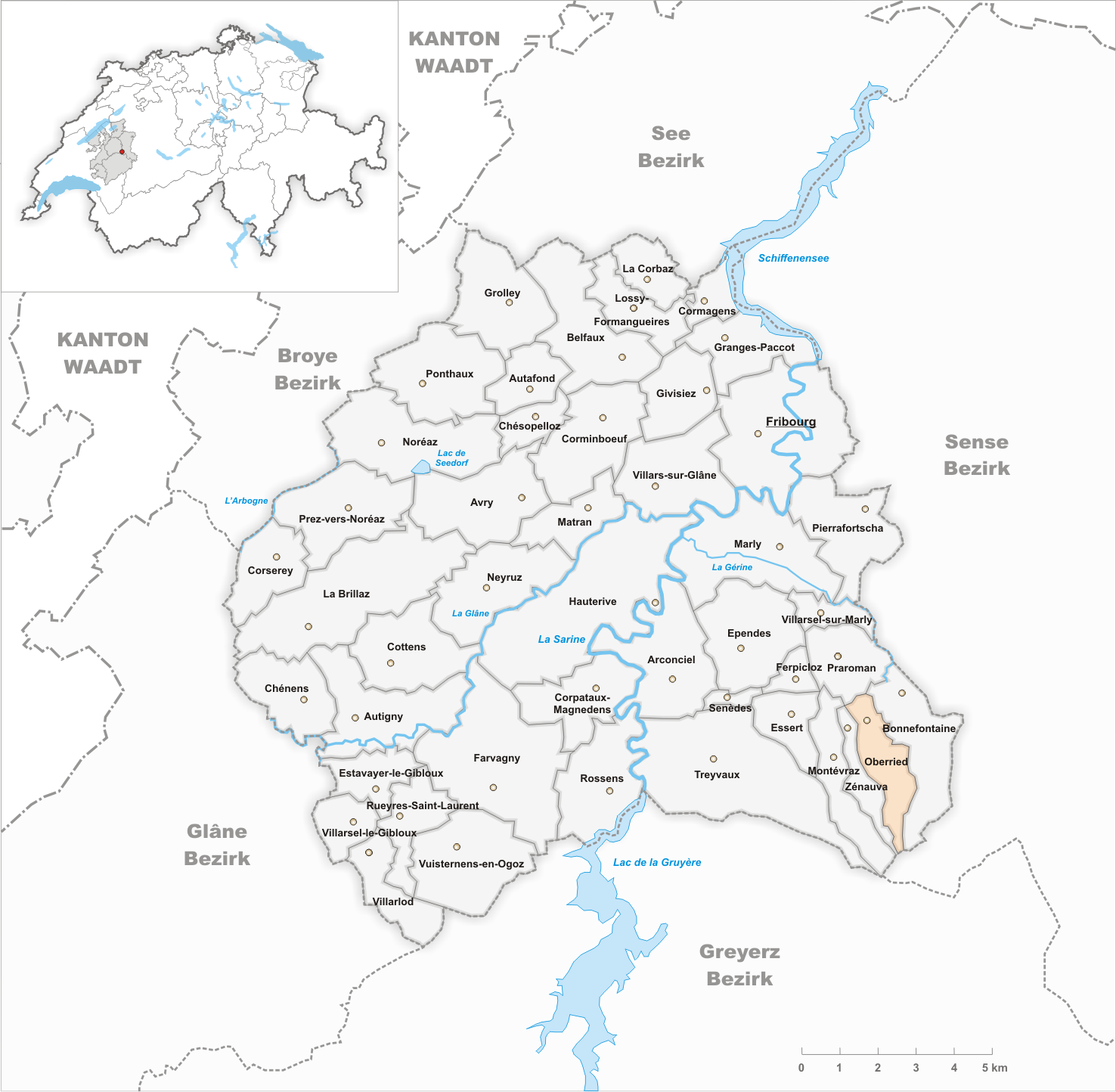 Municipality Oberried Artist: Tschubby